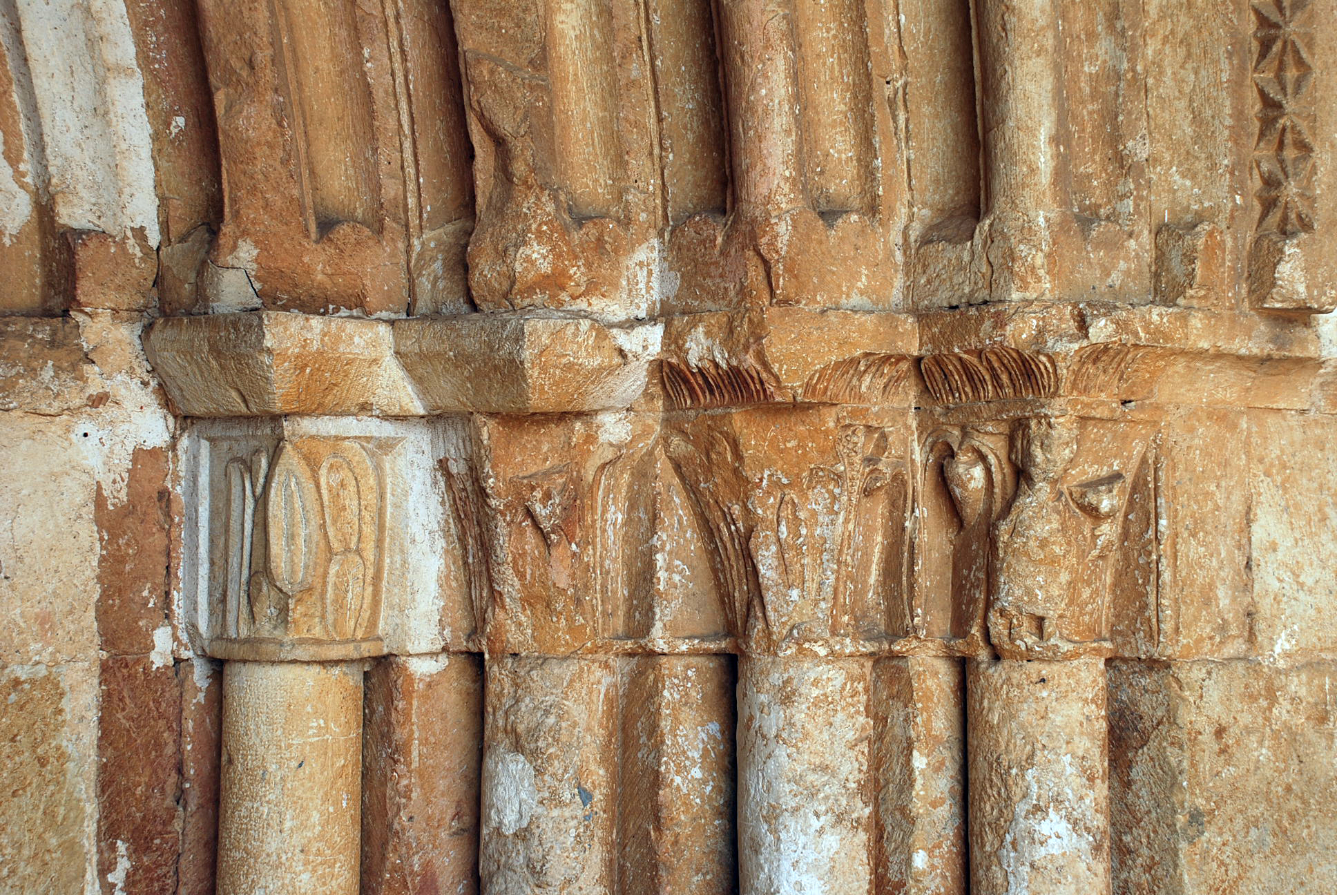 Capitals of the church of Nuestra Señora de la Asunción in Sotobañado y Priorato (Palencia, Castile and León).